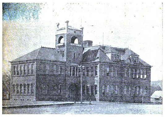 Public school building in Medford, Oregon